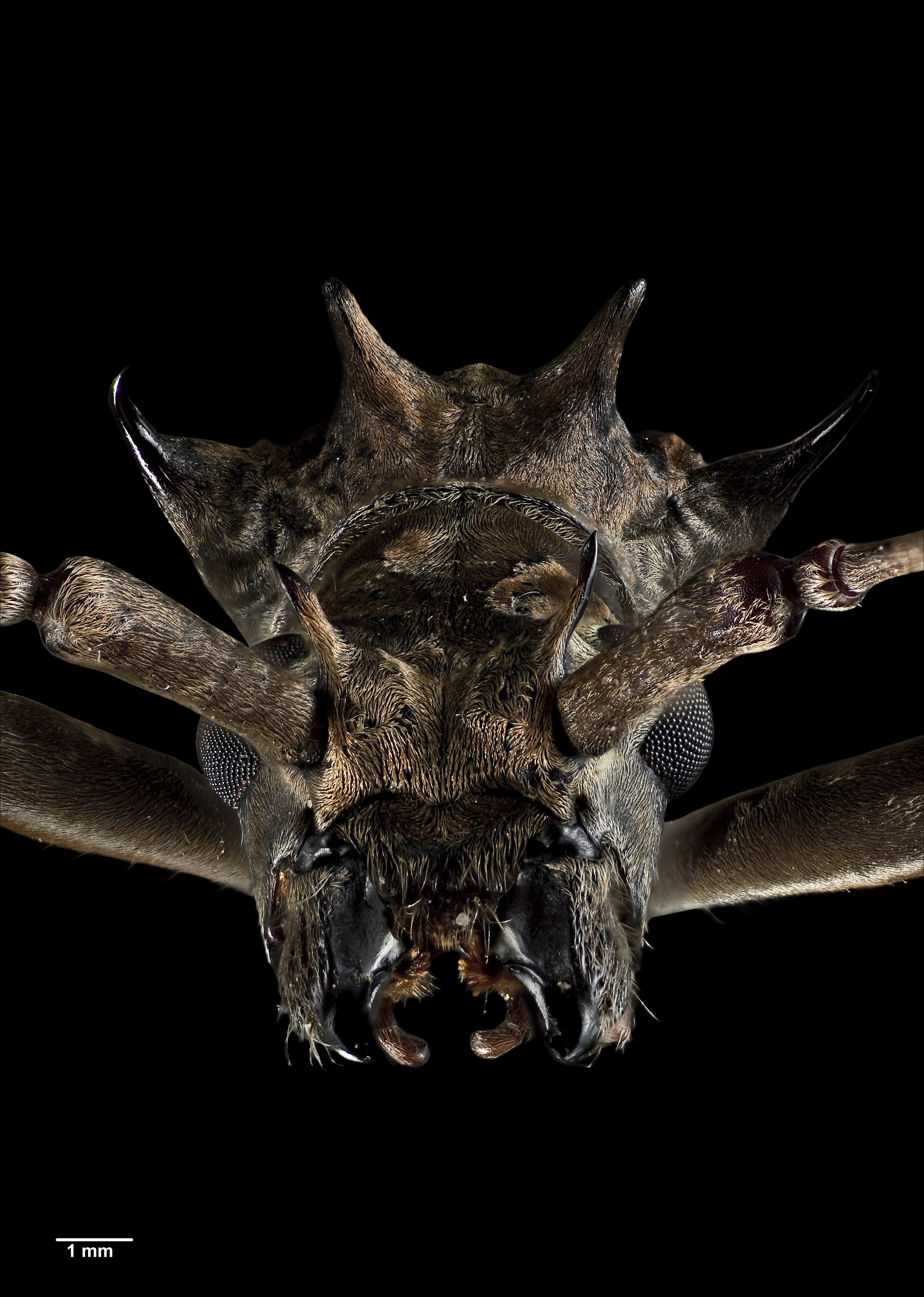 Head of Blosyropus spinosus specimen held at Auckland Museum licensed under CC BY 4.0.